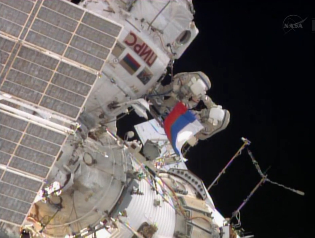 Cosmonauts Fyodor Yurchikhin (left) and Aleksandr Misurkin wave a Russian flag near the end of their spacewalk outside the International Space Station on 22 August 22, 2013